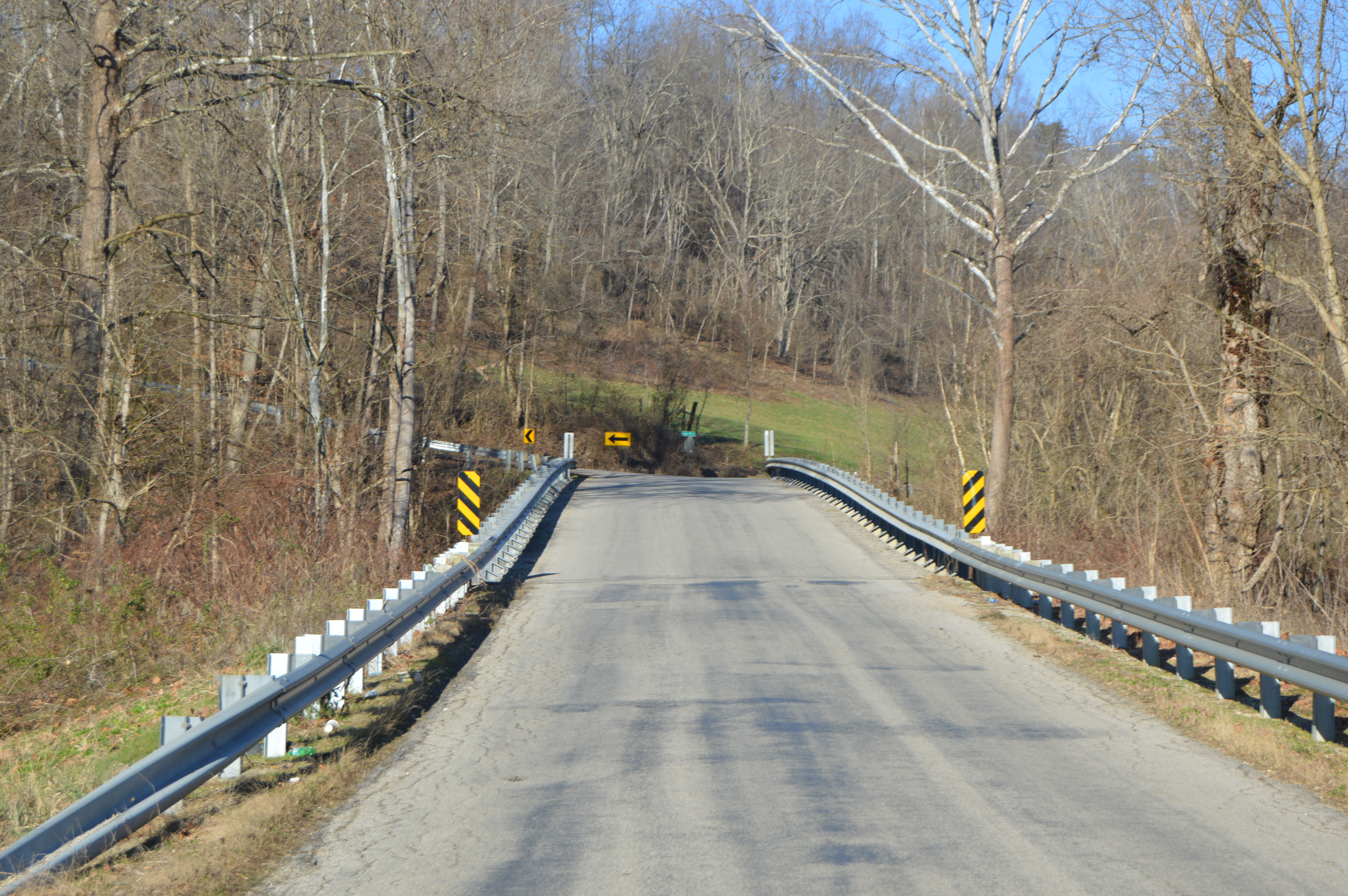 Looking east atop the bridge that carries Bennett Schoolhouse Road over the Little Scioto River at Harrison Mills in Harrison Township, Scioto County, Ohio, United States. The current bridge replaced an 1867 structure, the Bennett Schoolhouse Road Covered Bridge, which was listed on the National Register of Historic Places in 1978.